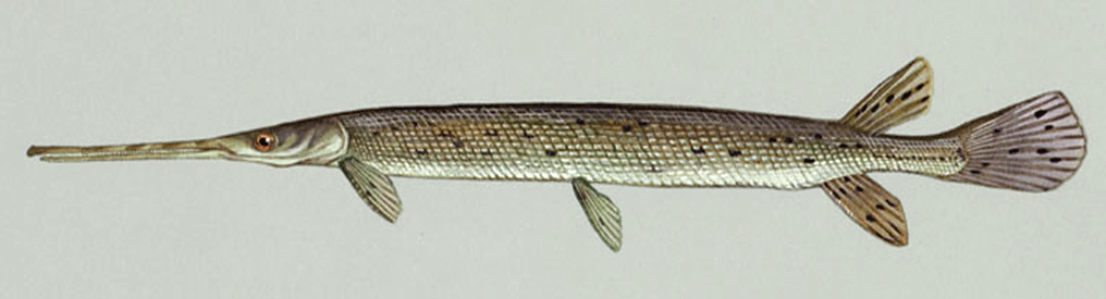 Longnose gar - Public Domain